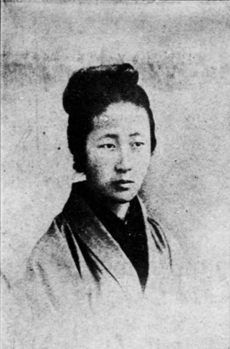 Nakajima (Kishida) Toshiko, a feminist of the Meiji era.